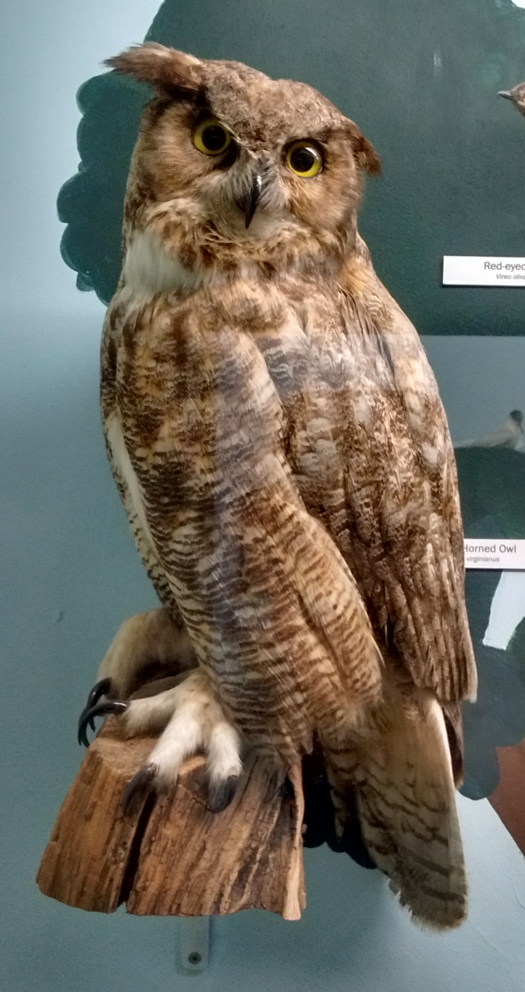 Taxidermied great horned owl at the Cape Cod Museum of Natural History